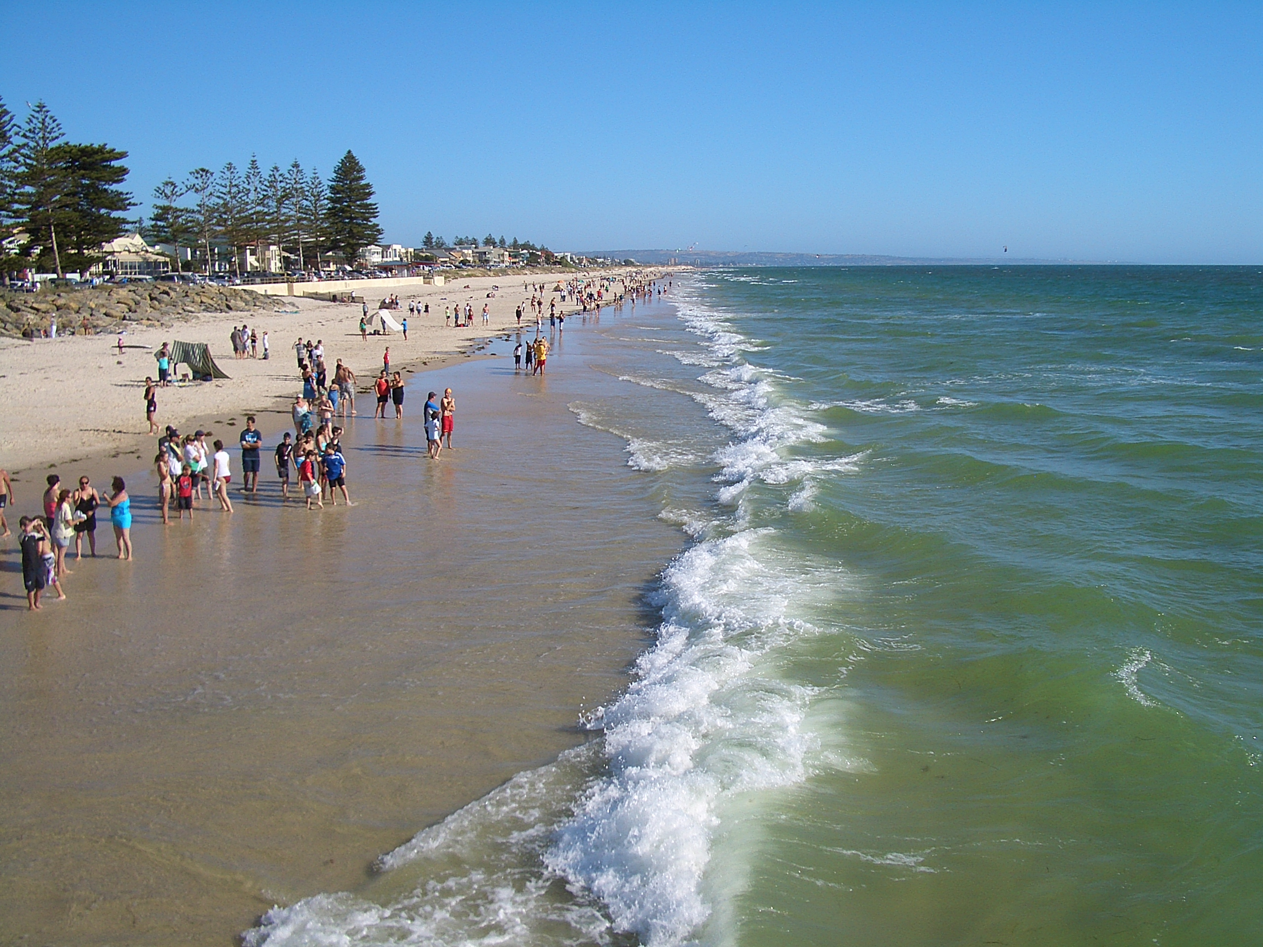 People are watching a rescure helicopter that's apparently signalling the sighting of a shark, at Henley Beach (eastern suburb of Adelaide)